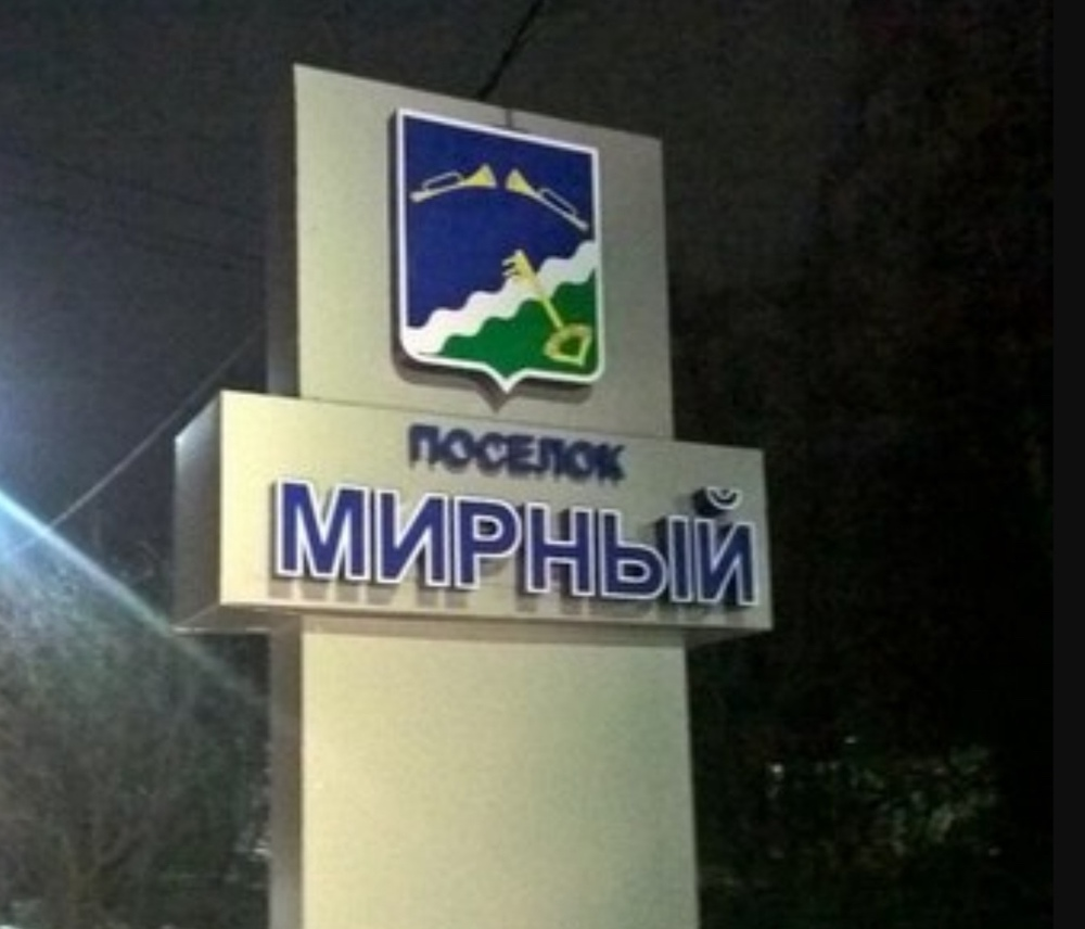 Stele at the entrance to the village of Mirny